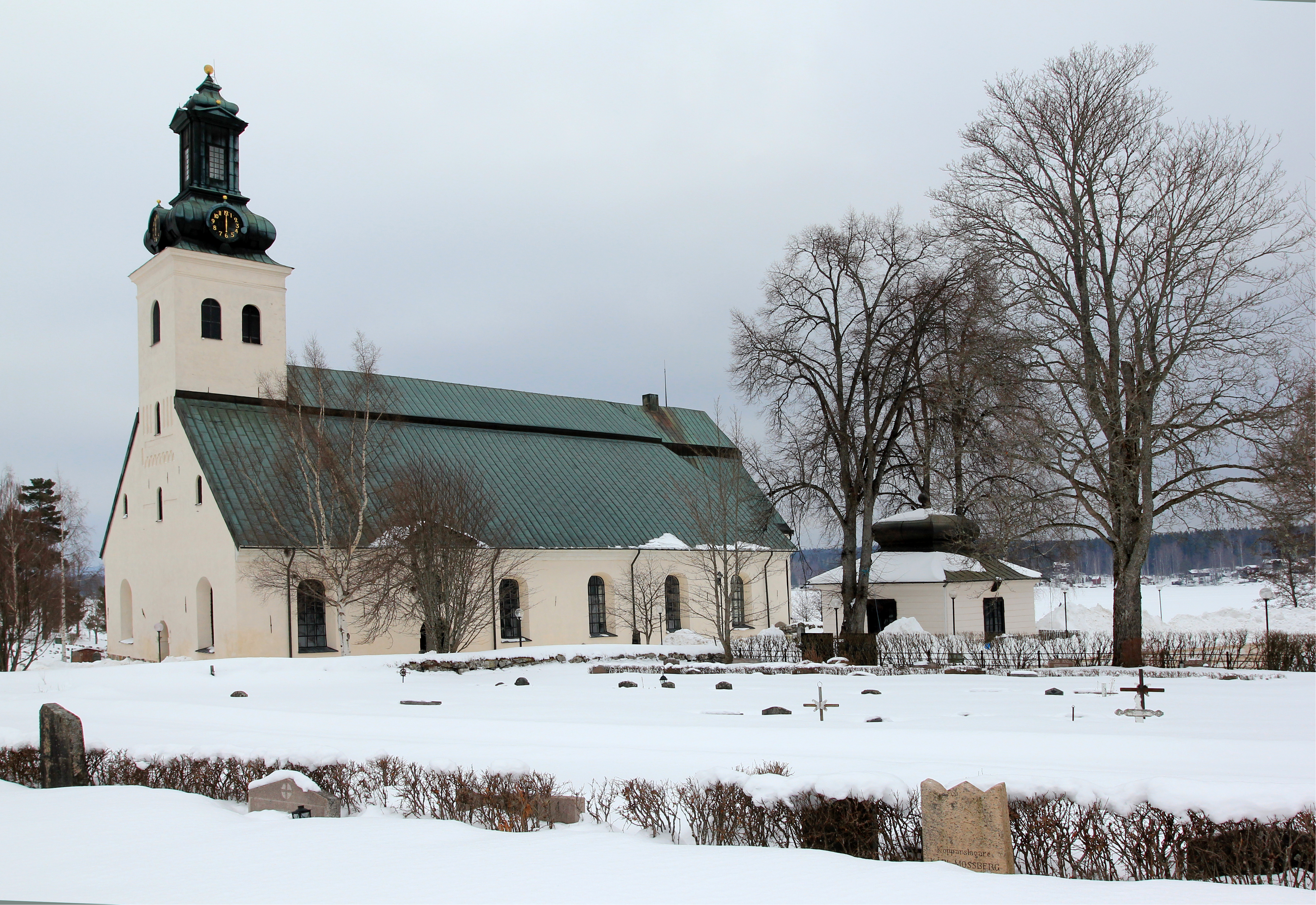 Söderbärke Church, main church of Söderbärke Parish, Smedjebacken Municipality, Sweden.